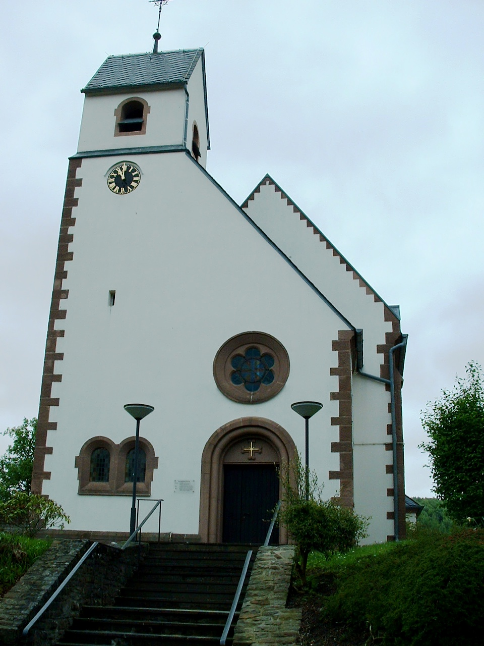 Lutheran Church, Prüm, Rhineland-Palatinate, Germany